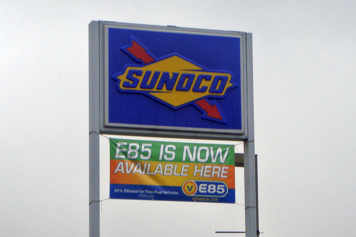 E85 sale banner at a gas station, Rockville, Maryland